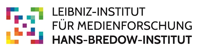 Logo of the Leibniz-Institute for Media Research | Hans-Bredow-Institut (HBI)